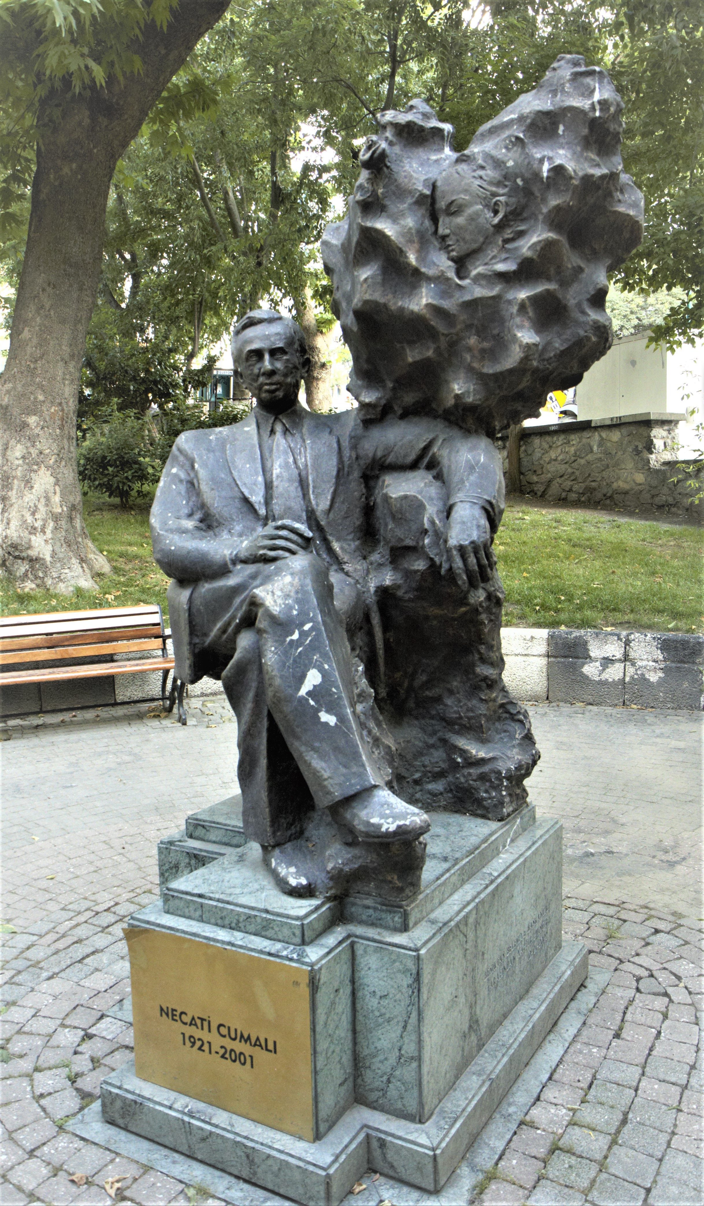 Sculpture of Necati Cumali by Gürdal Duyar.